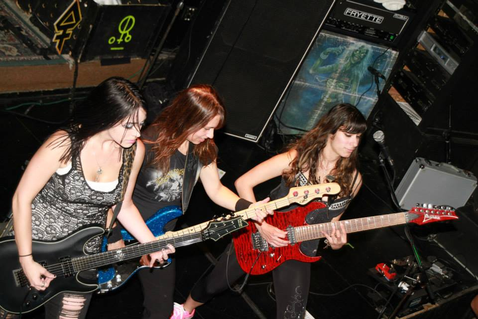 The Iron Maidens performing with Nikki Stringfield, guitarist from Before the Mourning of Los Angeles